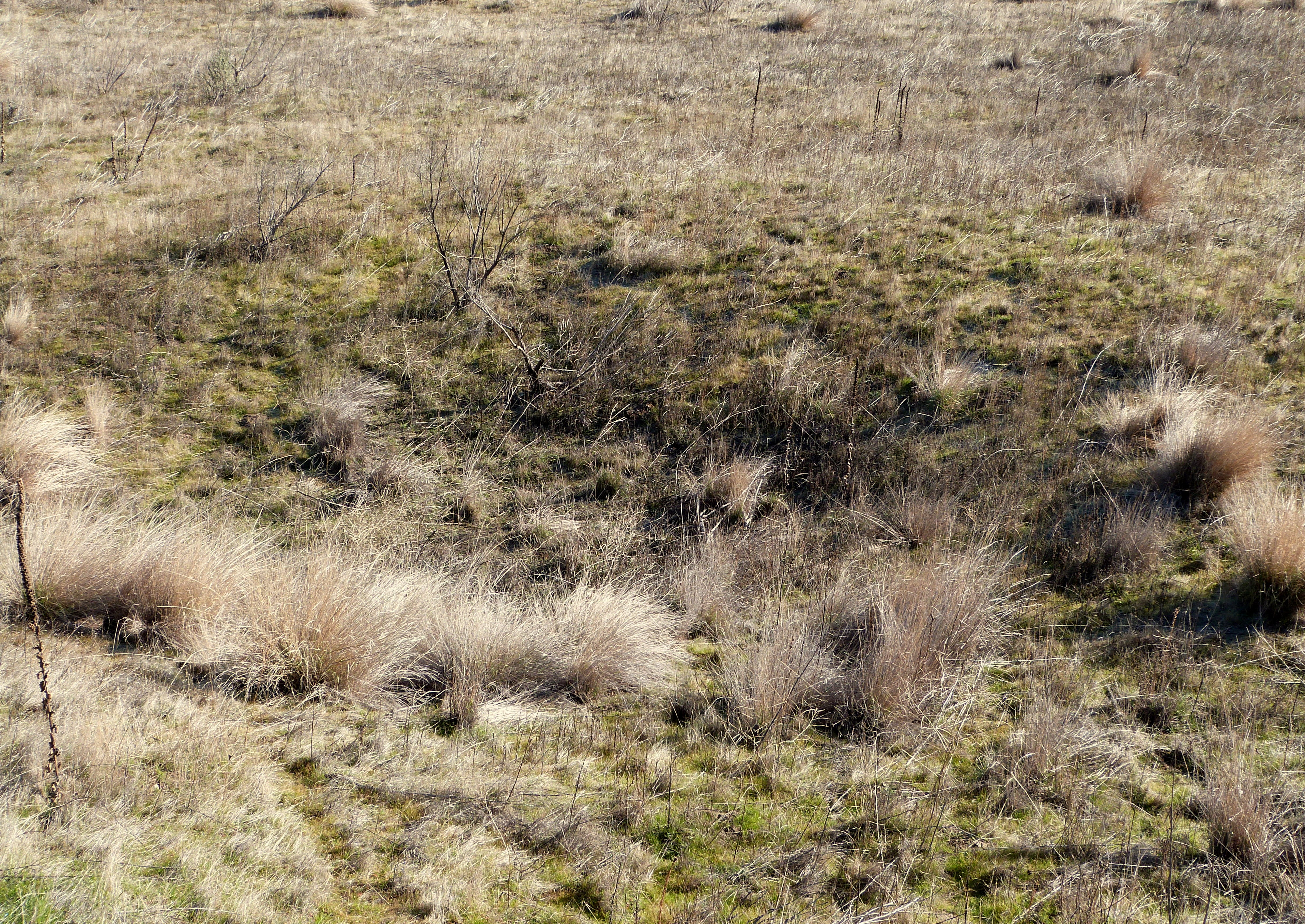 Soil depression marking the location of an ancient pit house at the Mack Canyon Archeological Site in Oregon, United States.